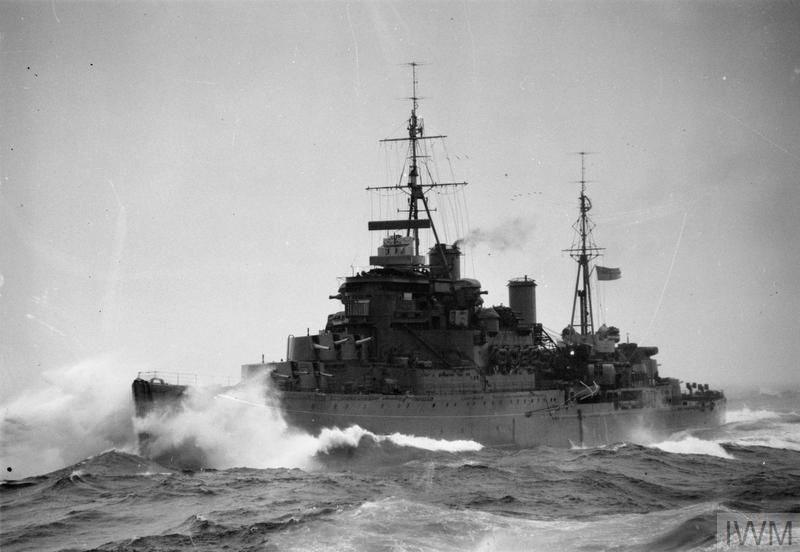 HMS KENYA IN THE ARCTIC CIRCLE. MAY 1942. HMS KENYA steaming through heavy seas.